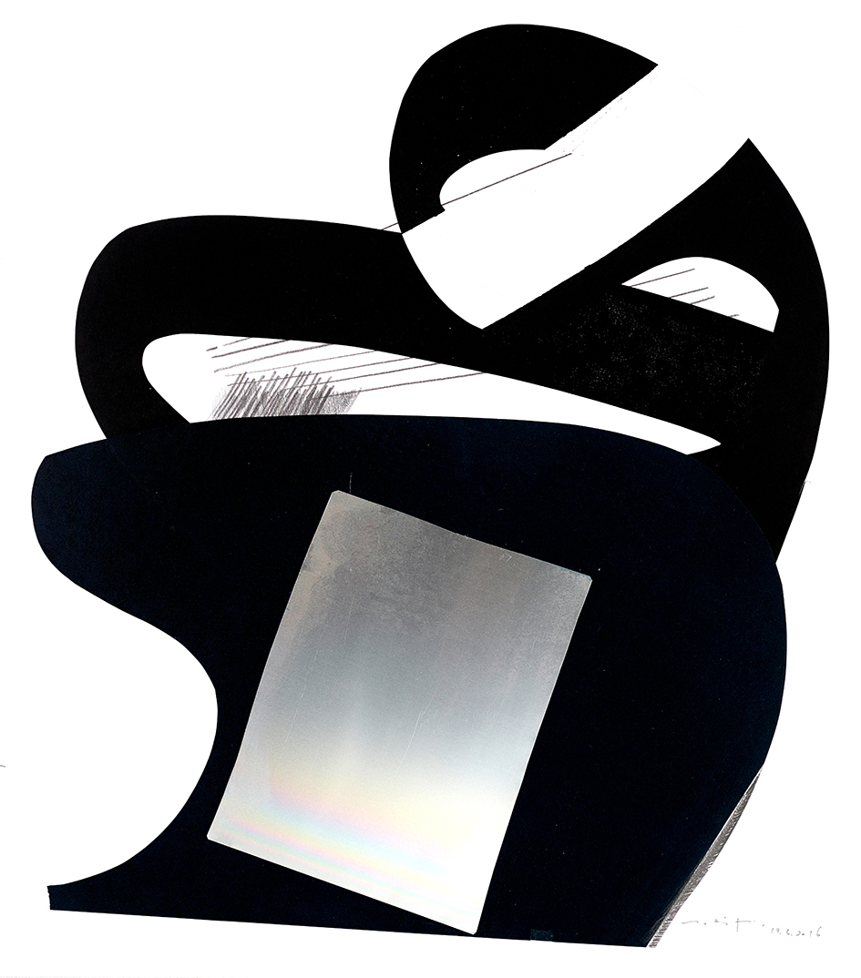 Graphic art work: Untitled, 80 x 90 cm, Mixed Media on paper, Aatifi 2016